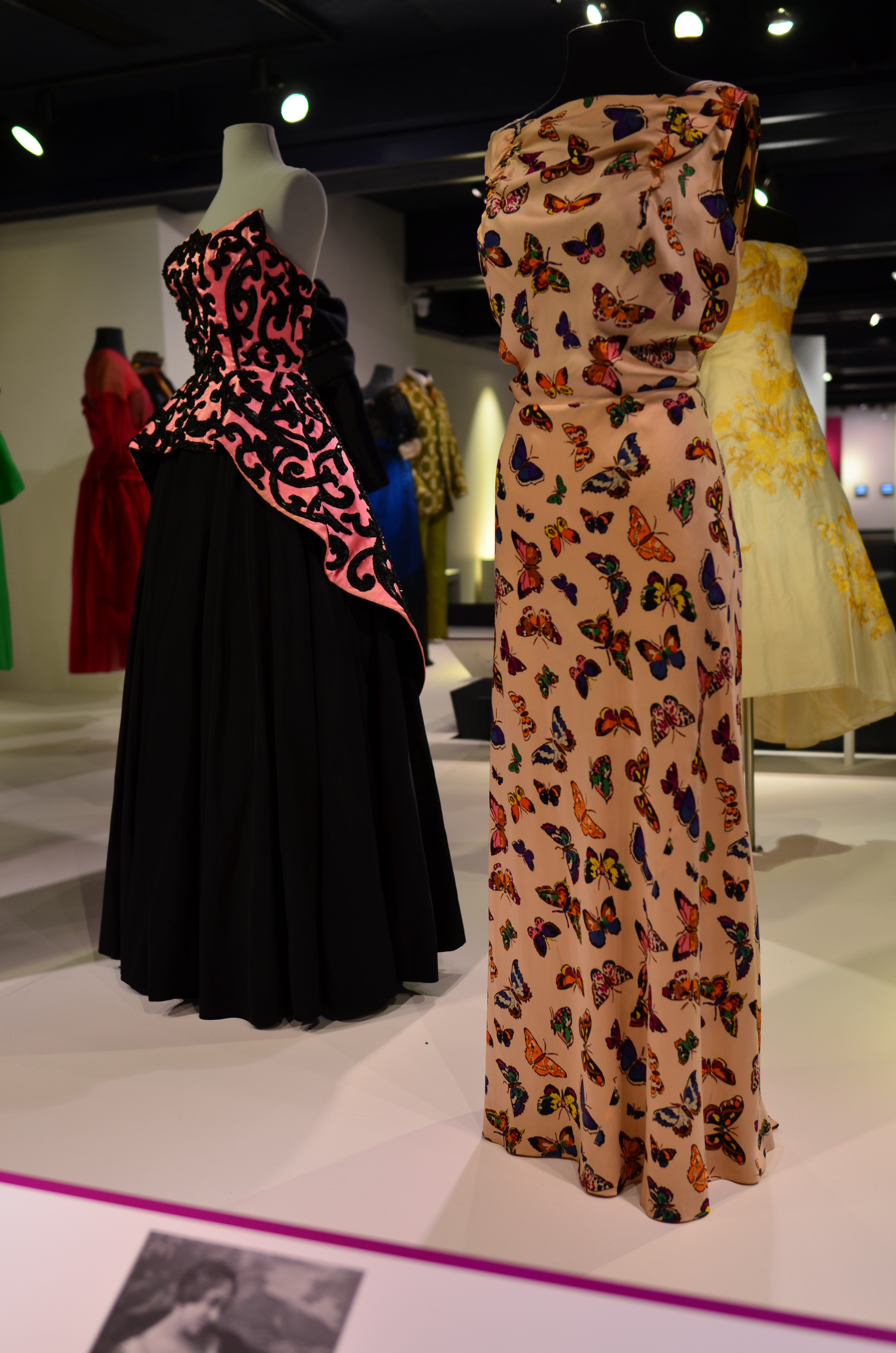 At right, 1937 Elsa Schiaparelli evening gown originally owned by Guendolen Carkeek Plestcheeff of Seattle, "Seattle Style: Fashion/Function" exhibit (2019), Museum of History and Industy, South Lake Union, Seattle, Washington, USA. In background at left is another Schiaparelli dress, a c. 1951 gown originally owned by Ruth Schoenfeld Blethen Clayburgh, also of Seattle.